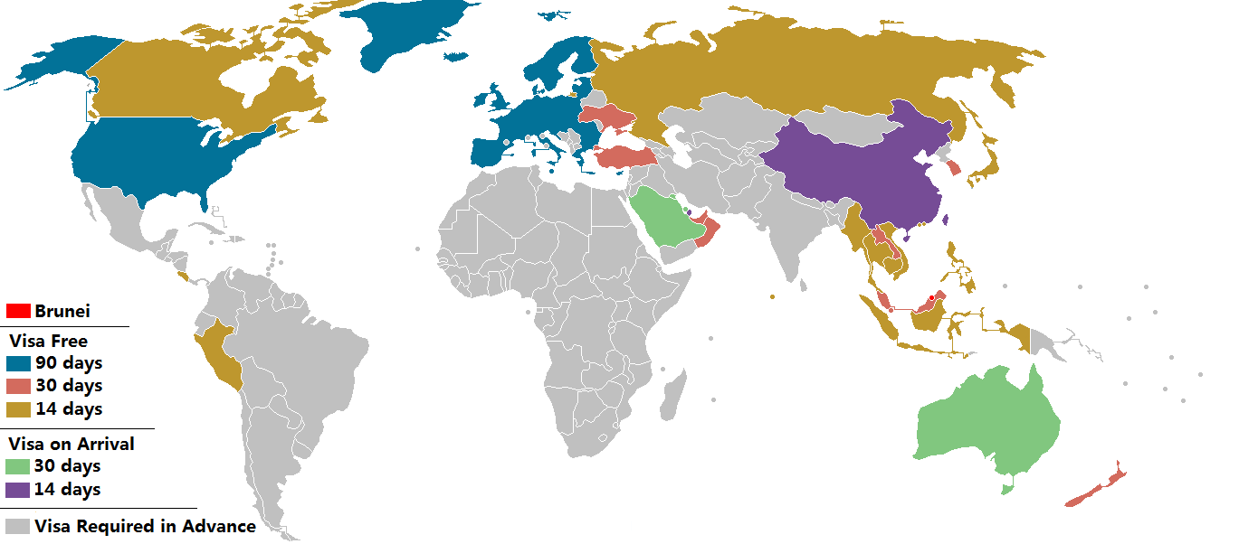 Visa policy of Brunei Brunei Visa-free - 90 days Visa-free - 30 days Visa-free - 14 days Visa on arrival - 30 days Visa on arrival - 14 days Visa required in advance